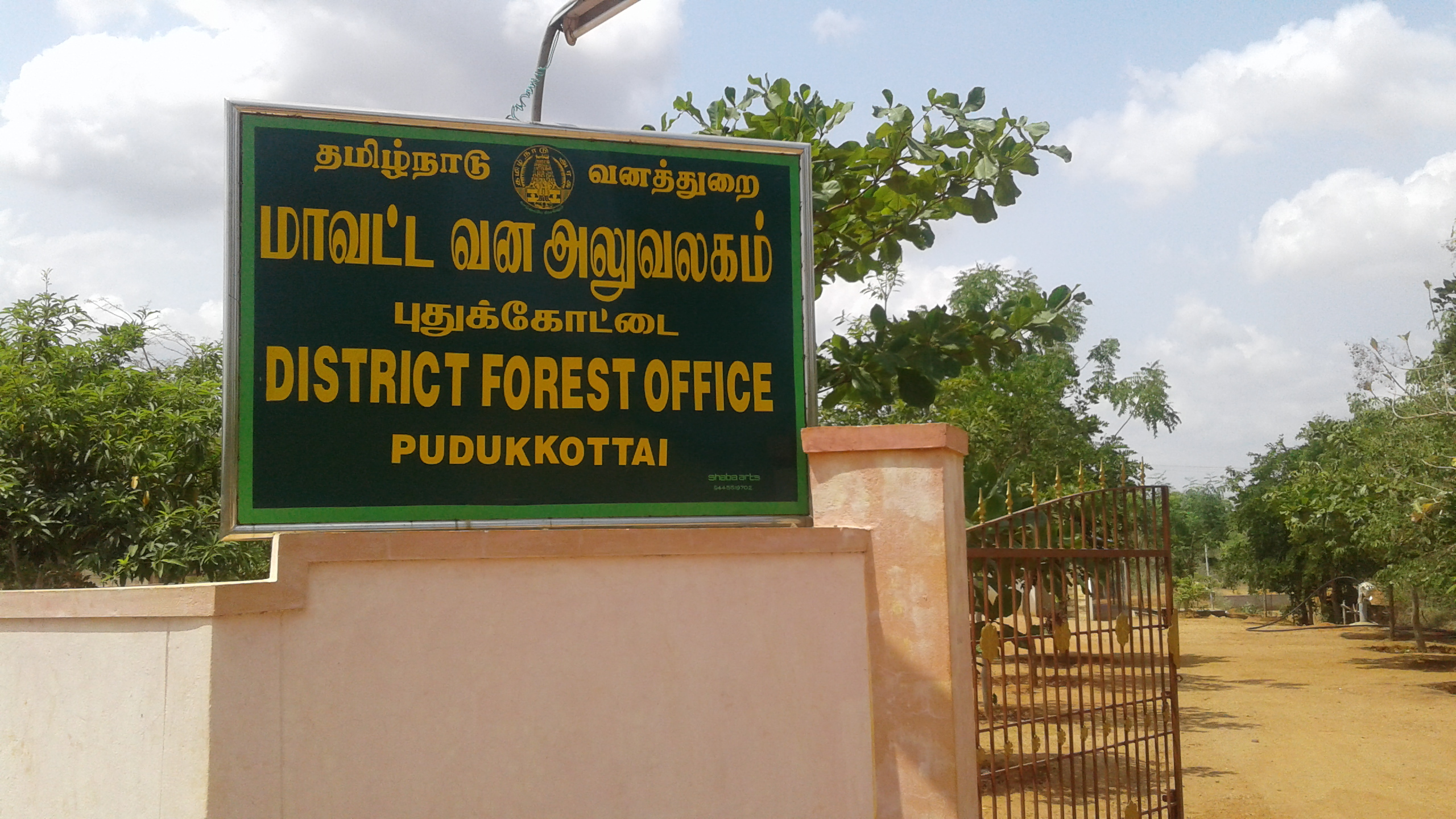 வனச்சரக அலுவலகம்